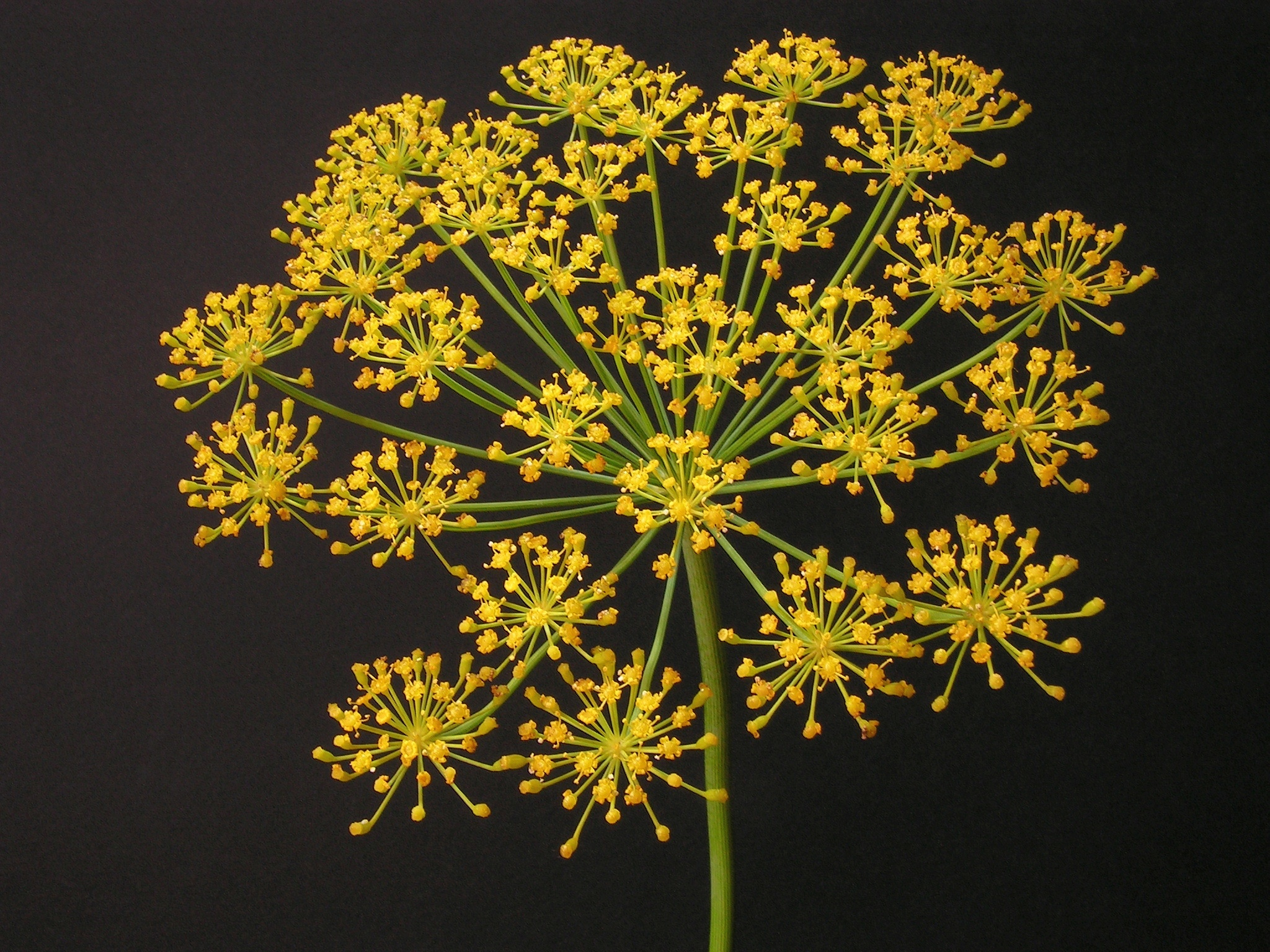 Compound inflorescence of Dill (diameter of the inflorescence is appr. 10 cm). Moscow region, Russia.